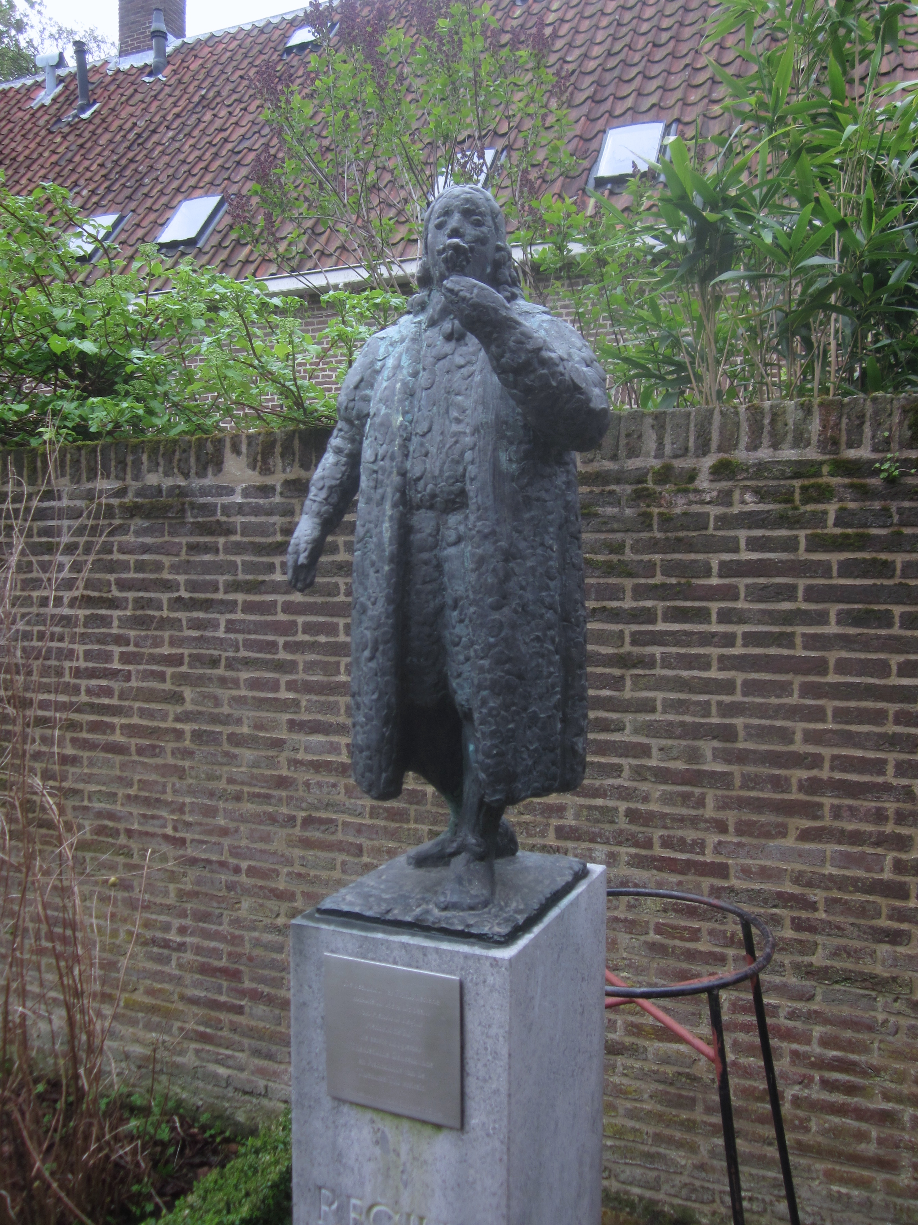 Henricus Regius Frank Letterie Oude Hortus Utrecht